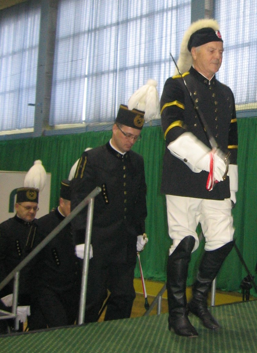 Polish Lis Major (Major the Fox) in his uniform during Barbórka (St. Barbara day, Polish miner's fete) in Libiąż